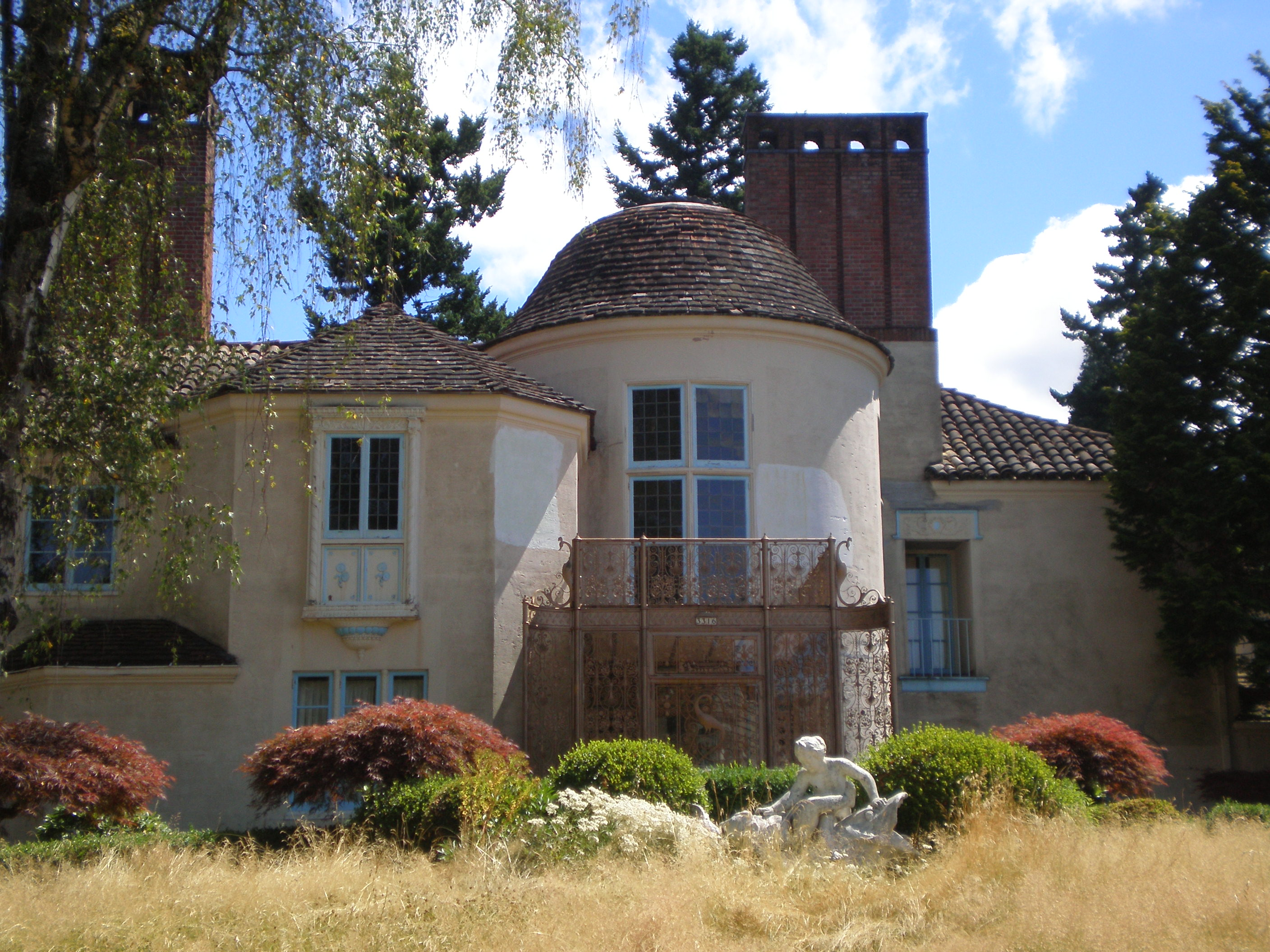 Bitar Mansion in southeast Portland, Oregon in July 2011